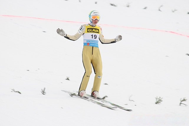 Dejan Judež in the FIS Ski-Flying World Championships 2012